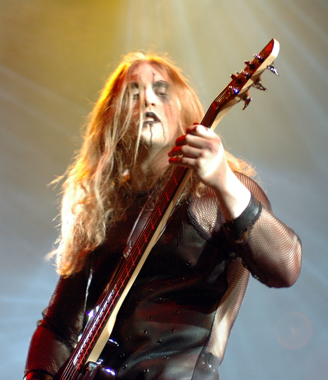 Charles Hedger from Cradle of Filth at Metalmania Festival 2005 in Poland